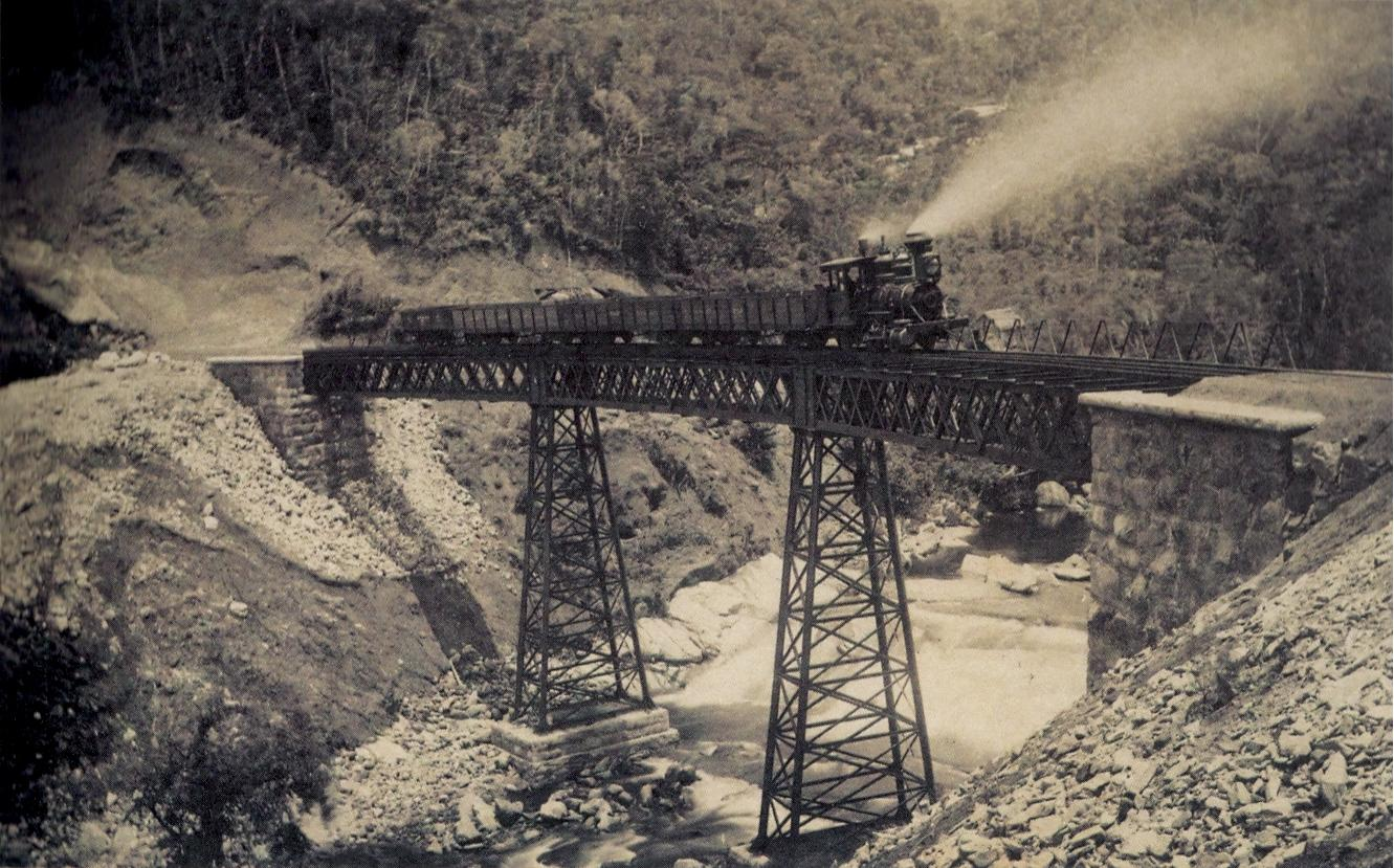 Railroad in the city of Petropolis, Brazil. 1885.